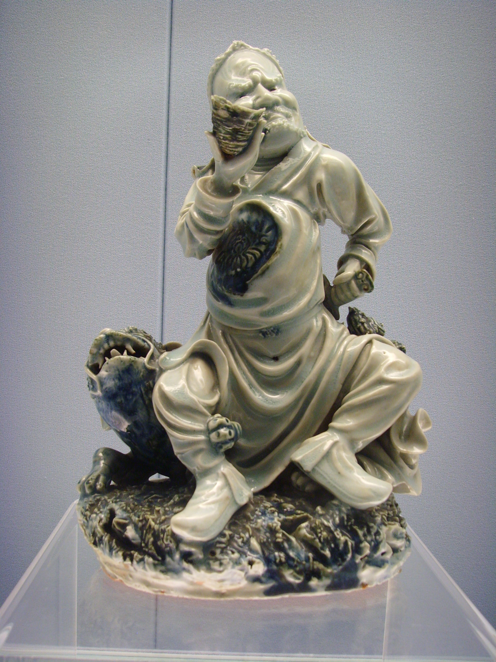 Shanghai Museum, Shanghai, P.R. of China: Underglaze blue statue of a man, blowing a conch on an animal; Jingdezhen ware, Wanli Reign (A. D. 1573-1620), Ming Dynasty